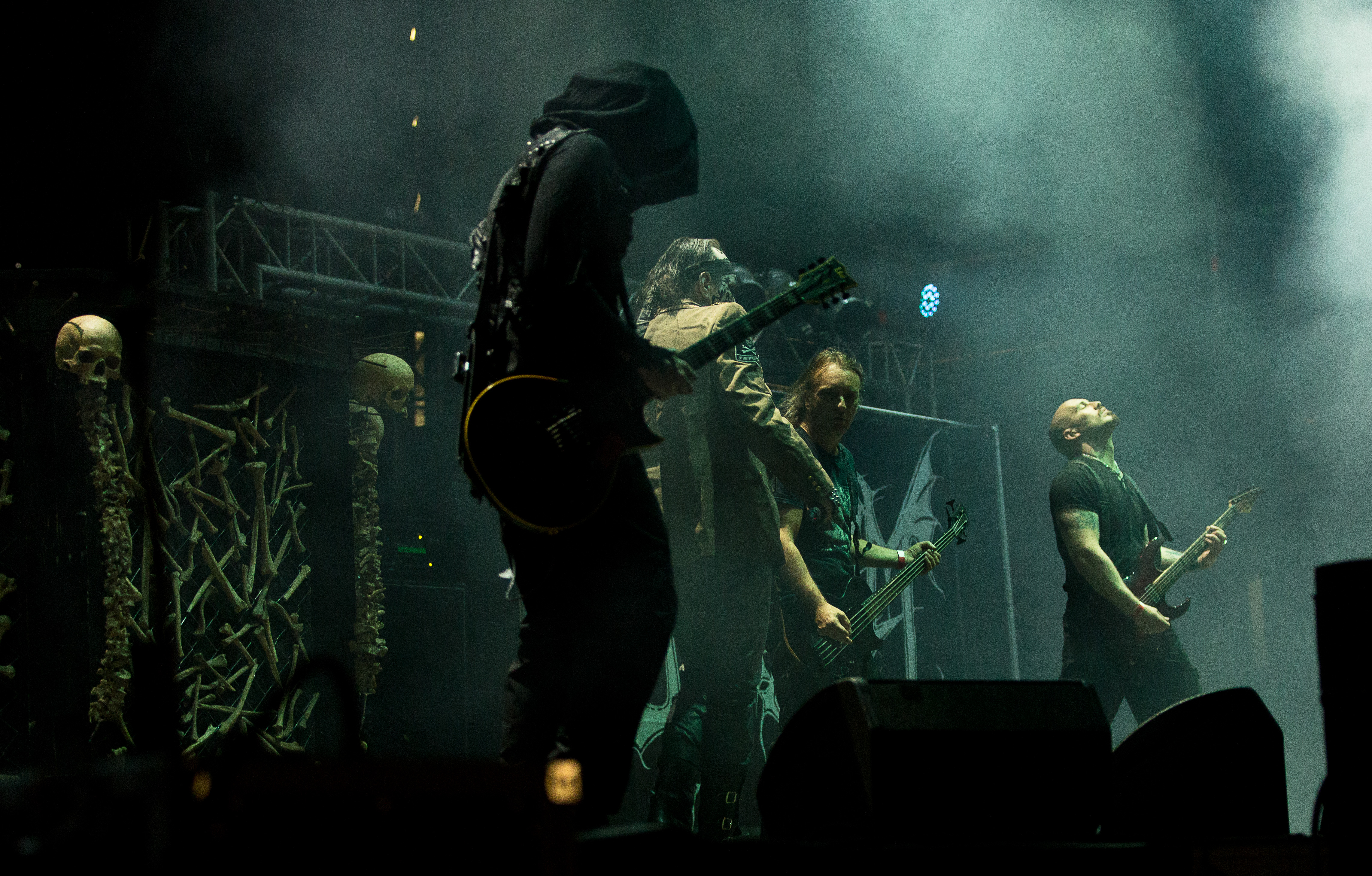 The Norwegian extreme metal band Mayhem at the Party.San Open Air 2015 in Obermehler-Schlotheim/Germany.